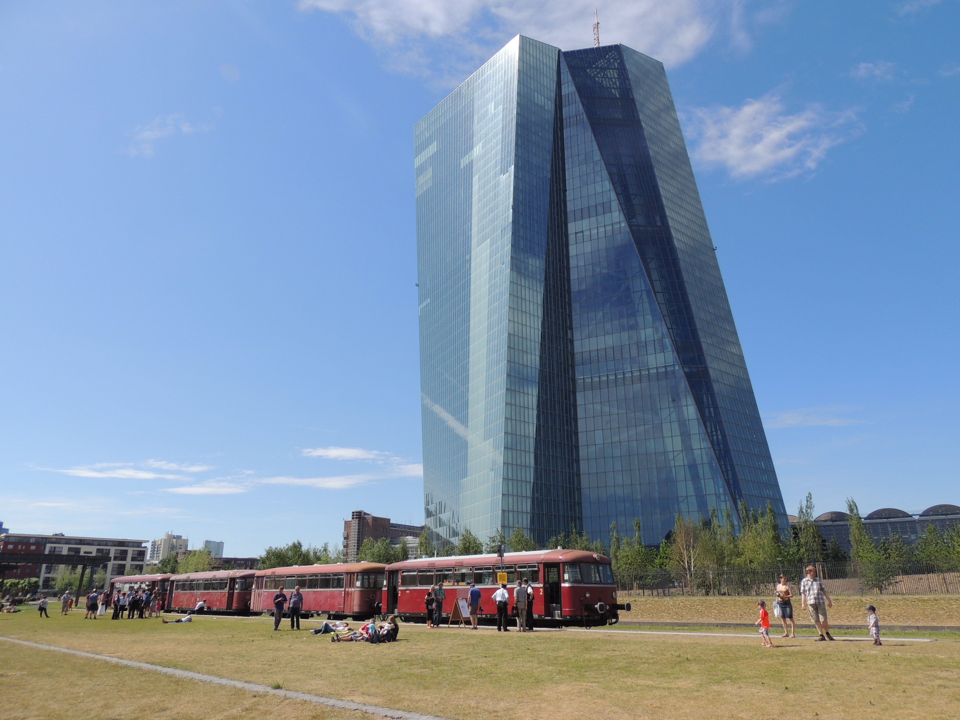 VT98 train set, consist of control cab coach (VS) 996 677-9, rail car (VT) 798 589-8, side car (VB) 998 184-6 and rail car VT 98 9829 operated by the Oberhessischen Eisenbahnfreunde (OEF) in servive for the Historic Railway Frankfurt (HEF), ready for departure at the stop at the Seat of the European Central Bank for Eiserner Steg on the Frankfurt City Link Line